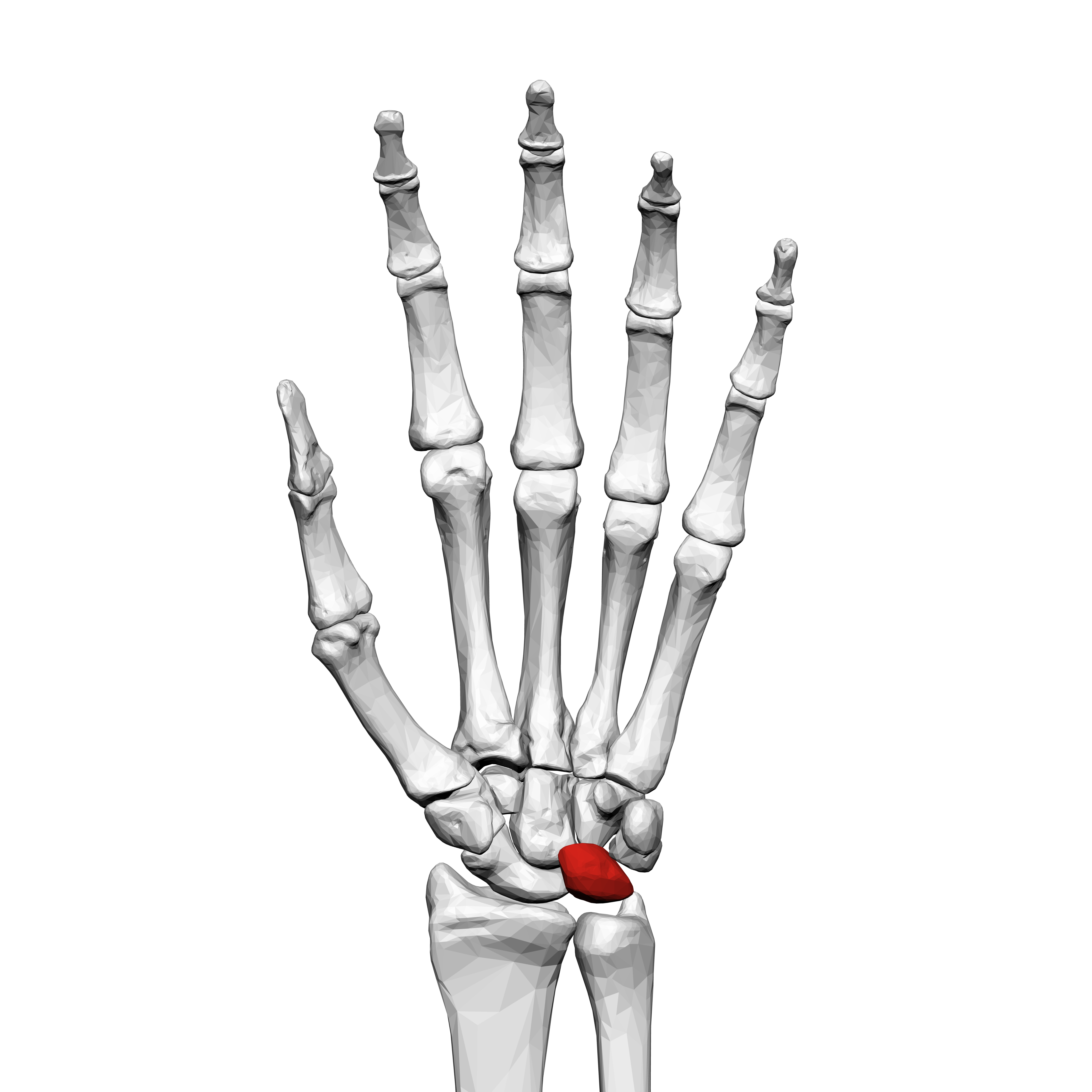 Lunate bone (shown in red).